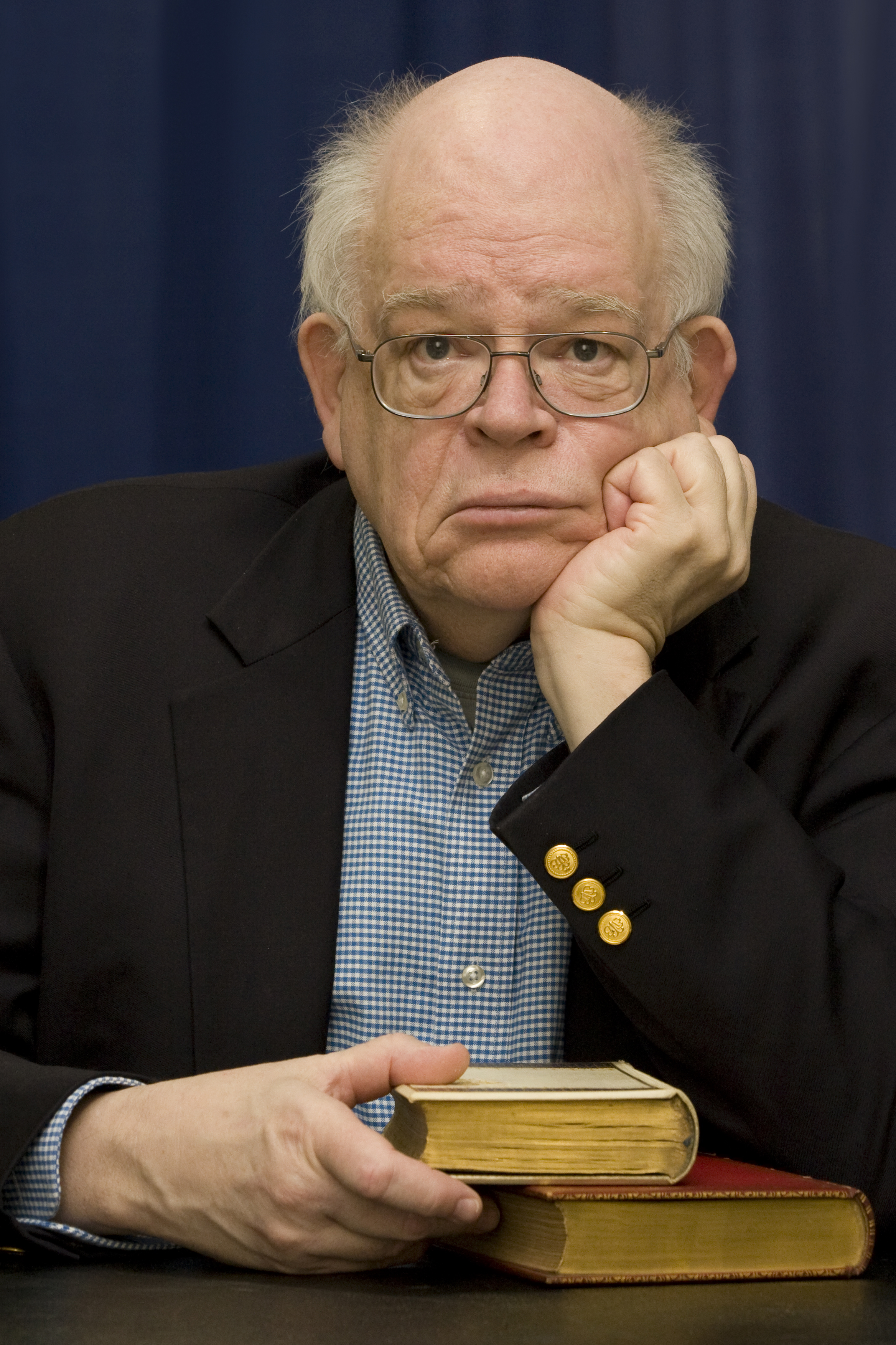 Head-and-shoulders shot of Terry Belanger, photographed 13 November 2010 by Adam Mastoon